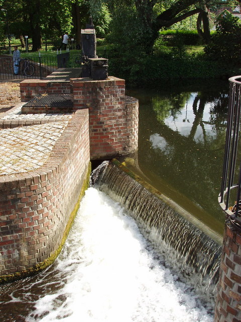 Mill weir in Colchester, on the River Colne, just before it passes into Castle Park. There has been a mill here on the River Colne since the time of the Norman Conquest.